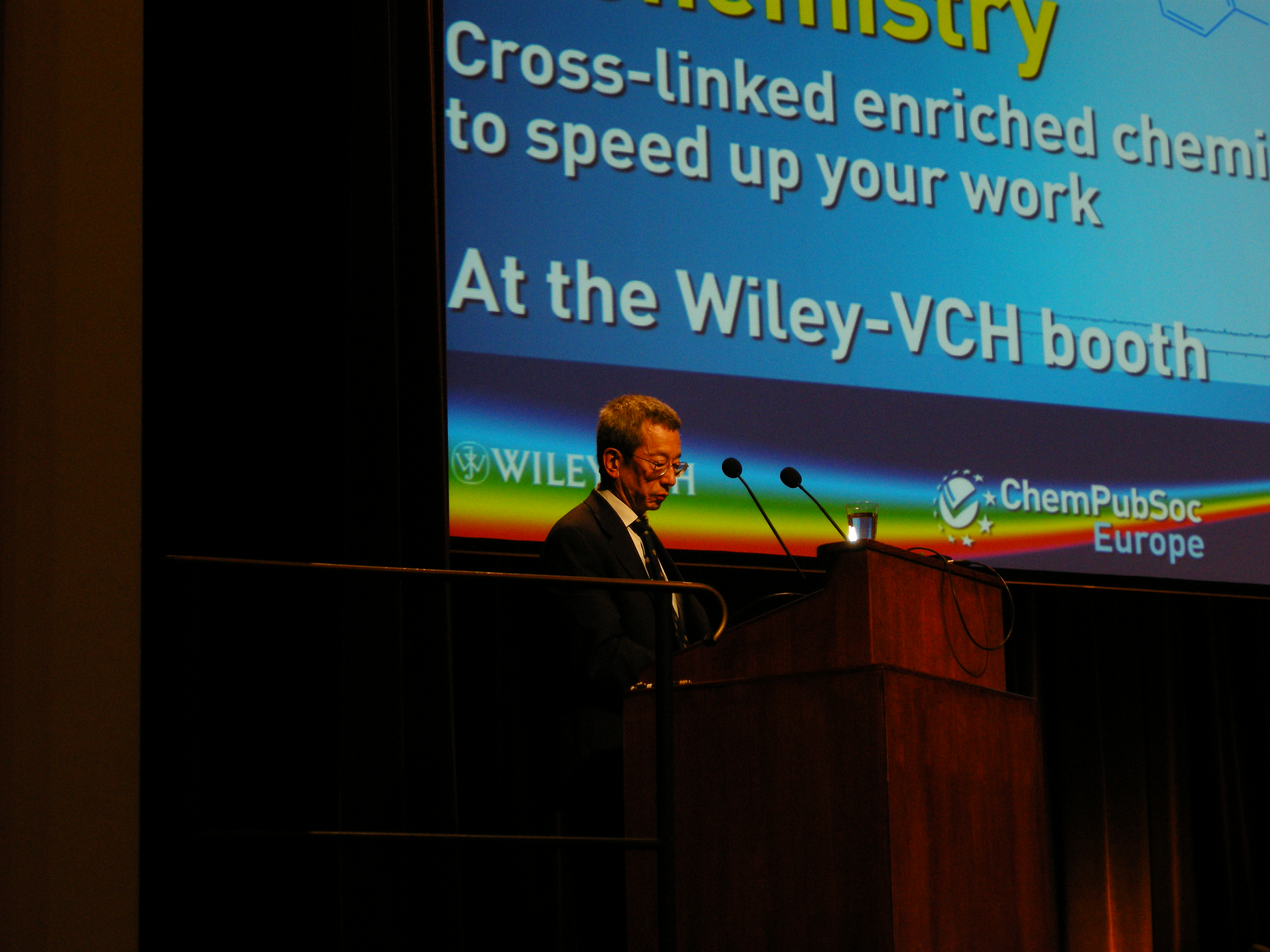 Roger Tsien, the 2008 Chemistry Nobel Prize Owner, is attending the symposium of the Frontiers of Chemistry on May 21st 2010 at Paris, Maison de la Chimie